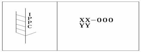 IPPC regulations